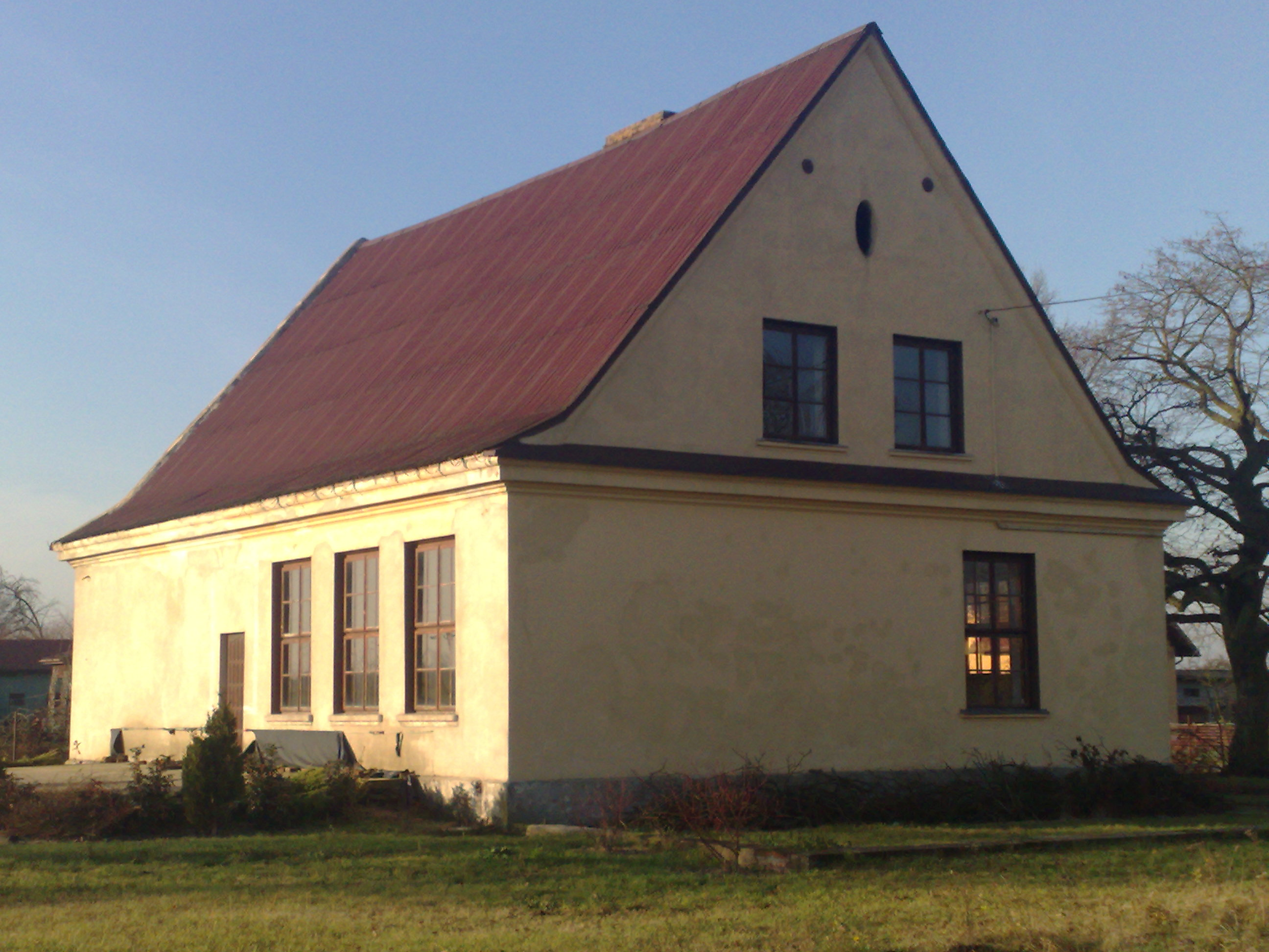 Olszowa-school building in 2009, Olszowa, Łódź Voivodeship